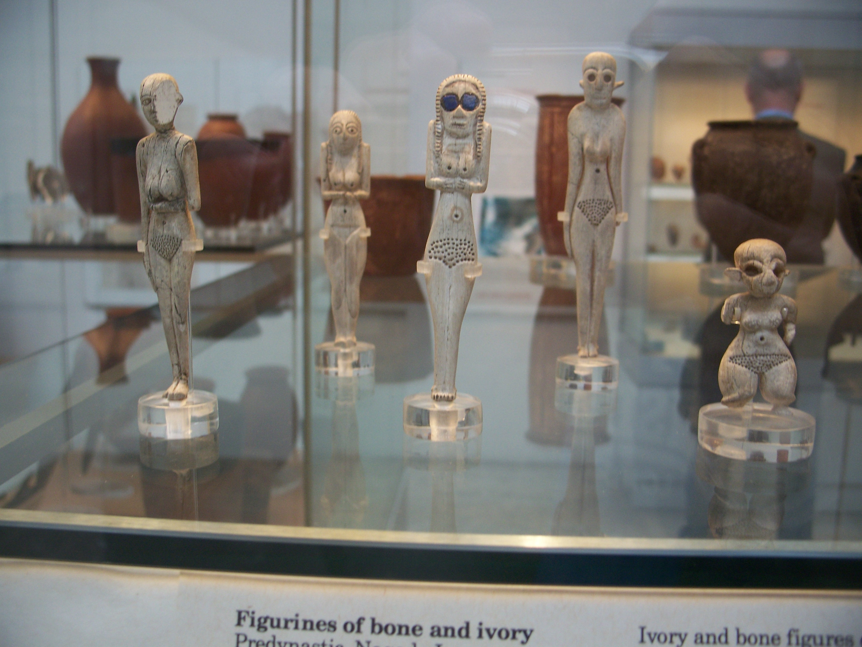 British Museum, bone and ivory